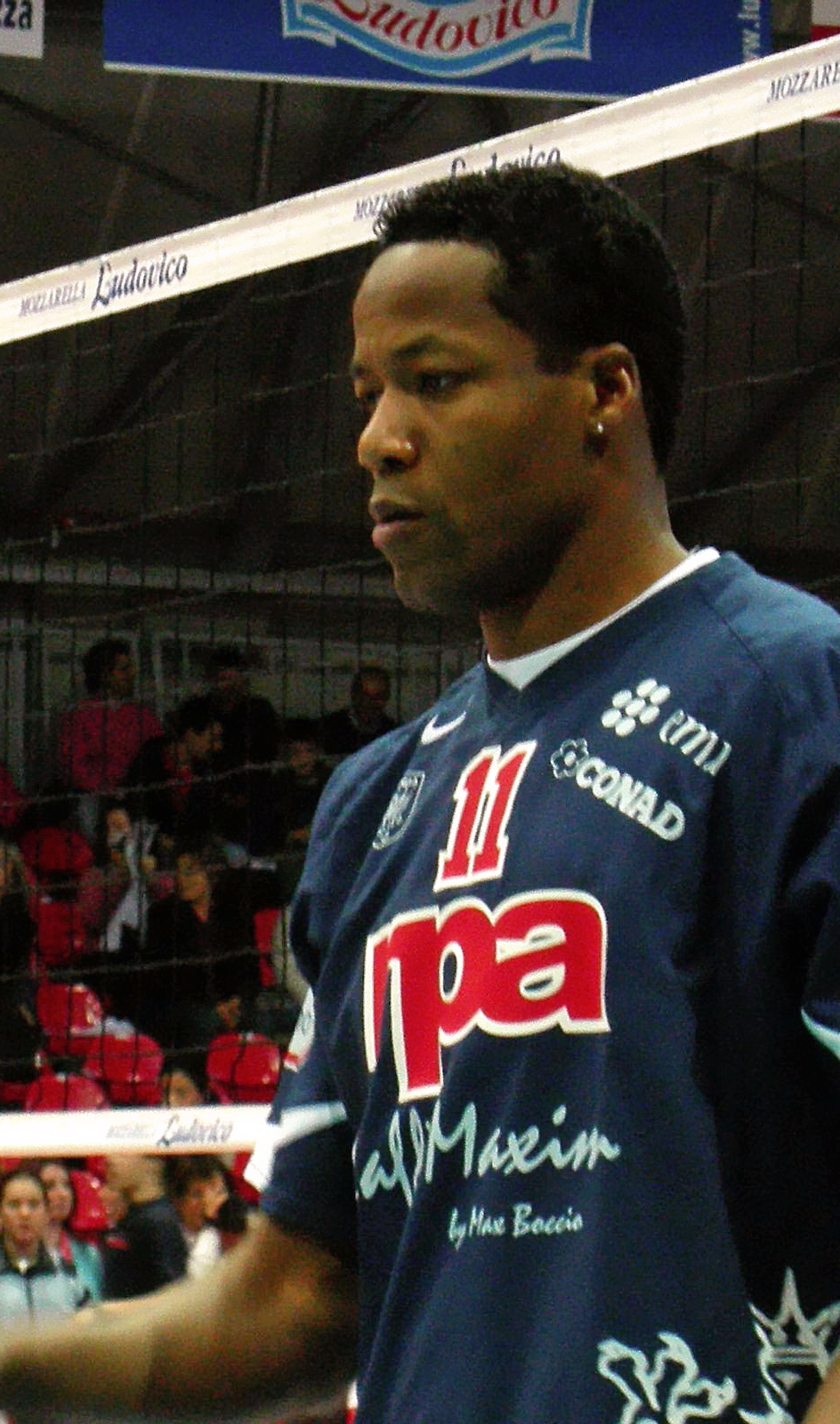 I took this picture during a volleyball match in Piacenza